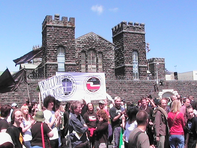 Up to 1000 people, including politicians, have joined activists in a march to Auckland's Mt Eden Prison to protest against recent police raids.